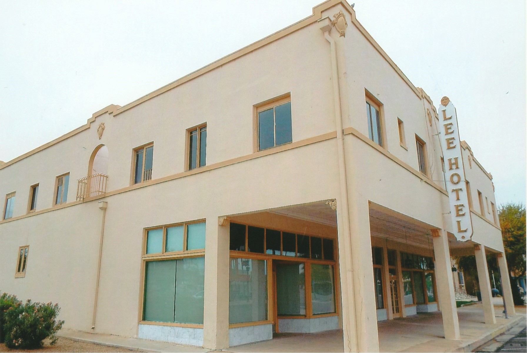 Lee Hotel - located at 390 Main Street was built in 1917 and listed in the National Register of Historic Places on April 12, 1984, reference #84000750.